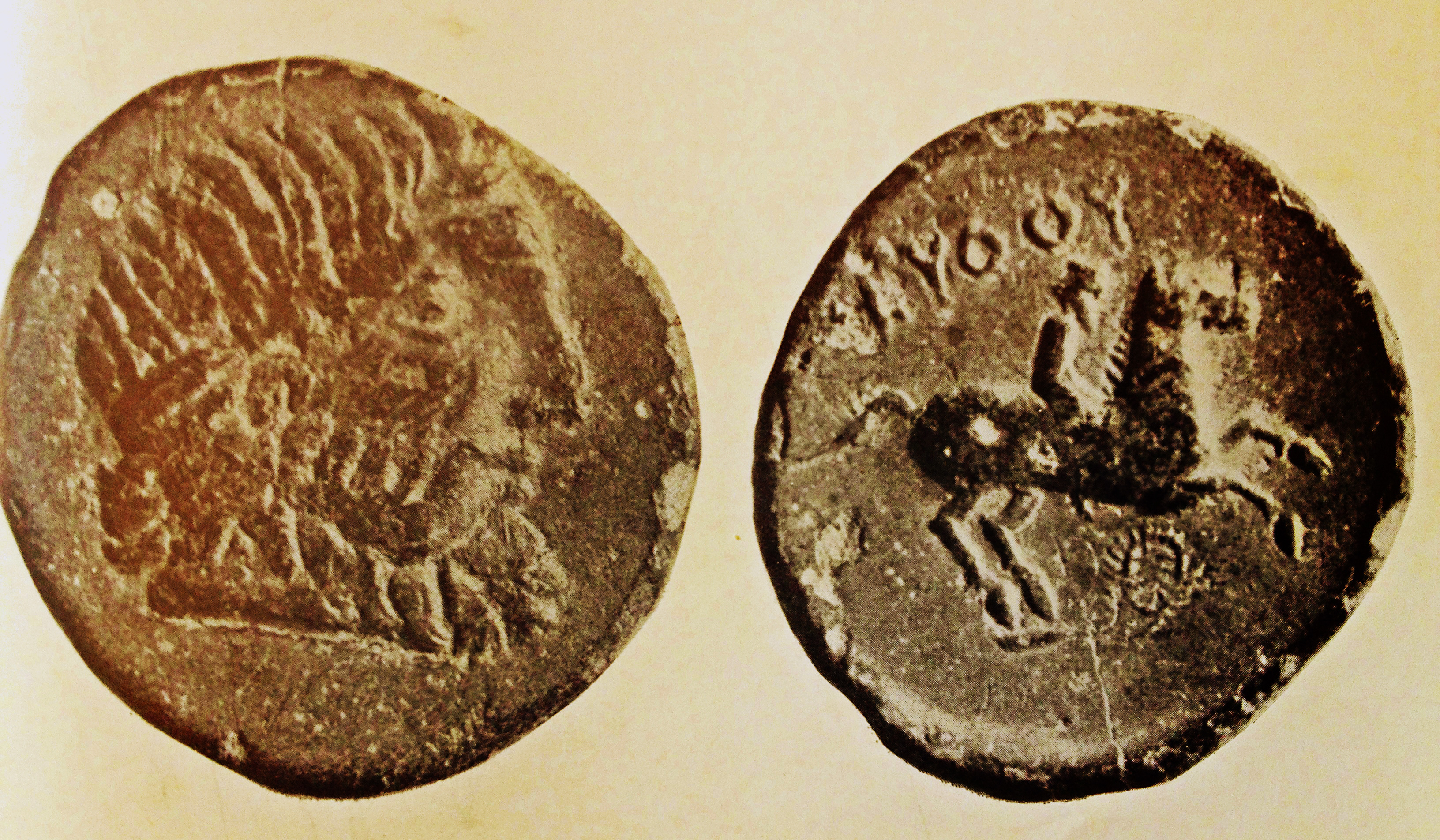 Suthopolis Coins 2